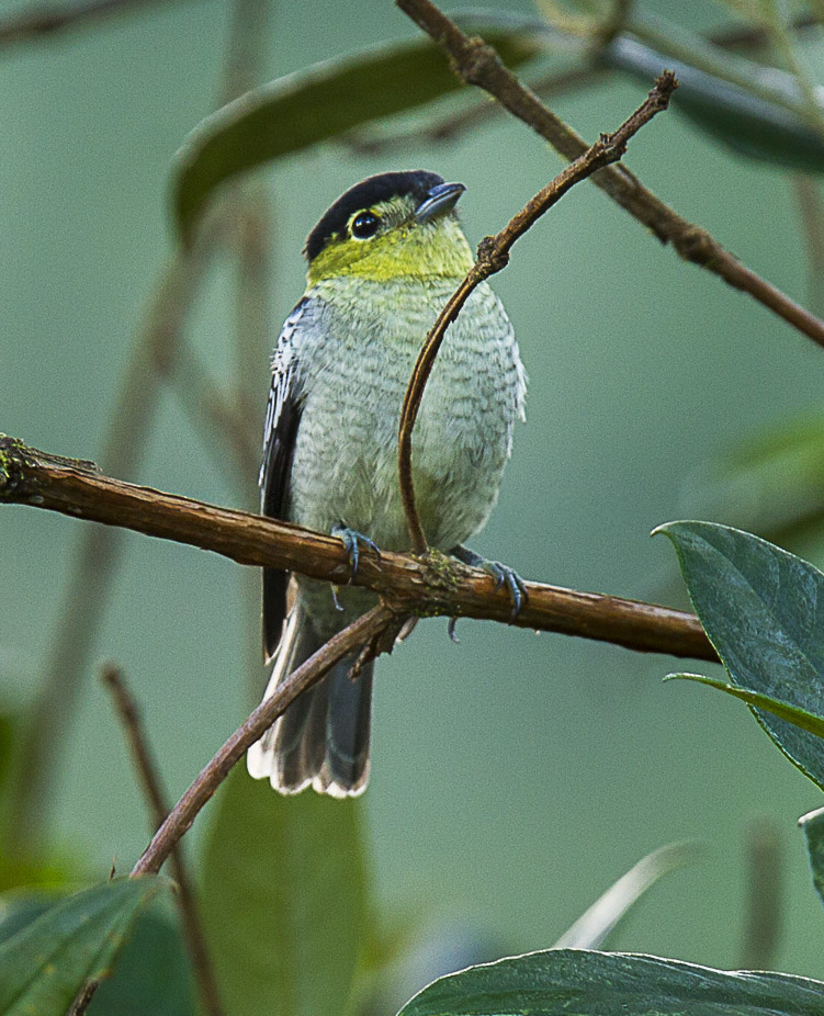 Barred Becard (Pachyramphus versicolor) - South Ecuador_S4E2434